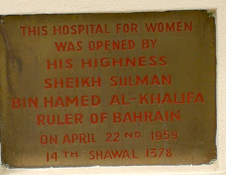 A dedication plaque from 1959 in Salmaniya Medical Complex (Bahrain) that reads 'This Hospital For Women Was Opened By His Highness Sheikh Sulman Bin Hamed Al-Khalifa Ruler Of Bahrain On April 22nd 1959 14th Shawal 1378'.